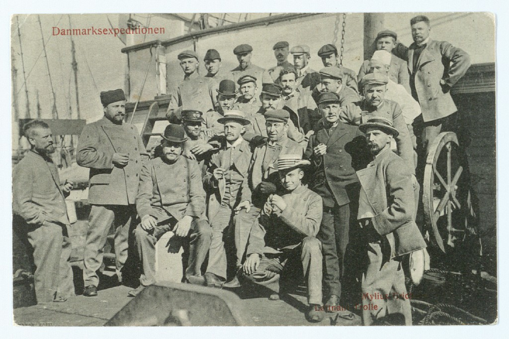 The members of the Denmark Expedition on board the ship "Danmark" in Frederikshavn.